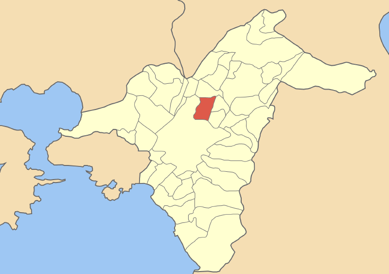 Locator map of Galatsi municipality (Δήμος Γαλατσίου) in Athina Nomarchia (Νομαρχία Αθηνών) in Greece.